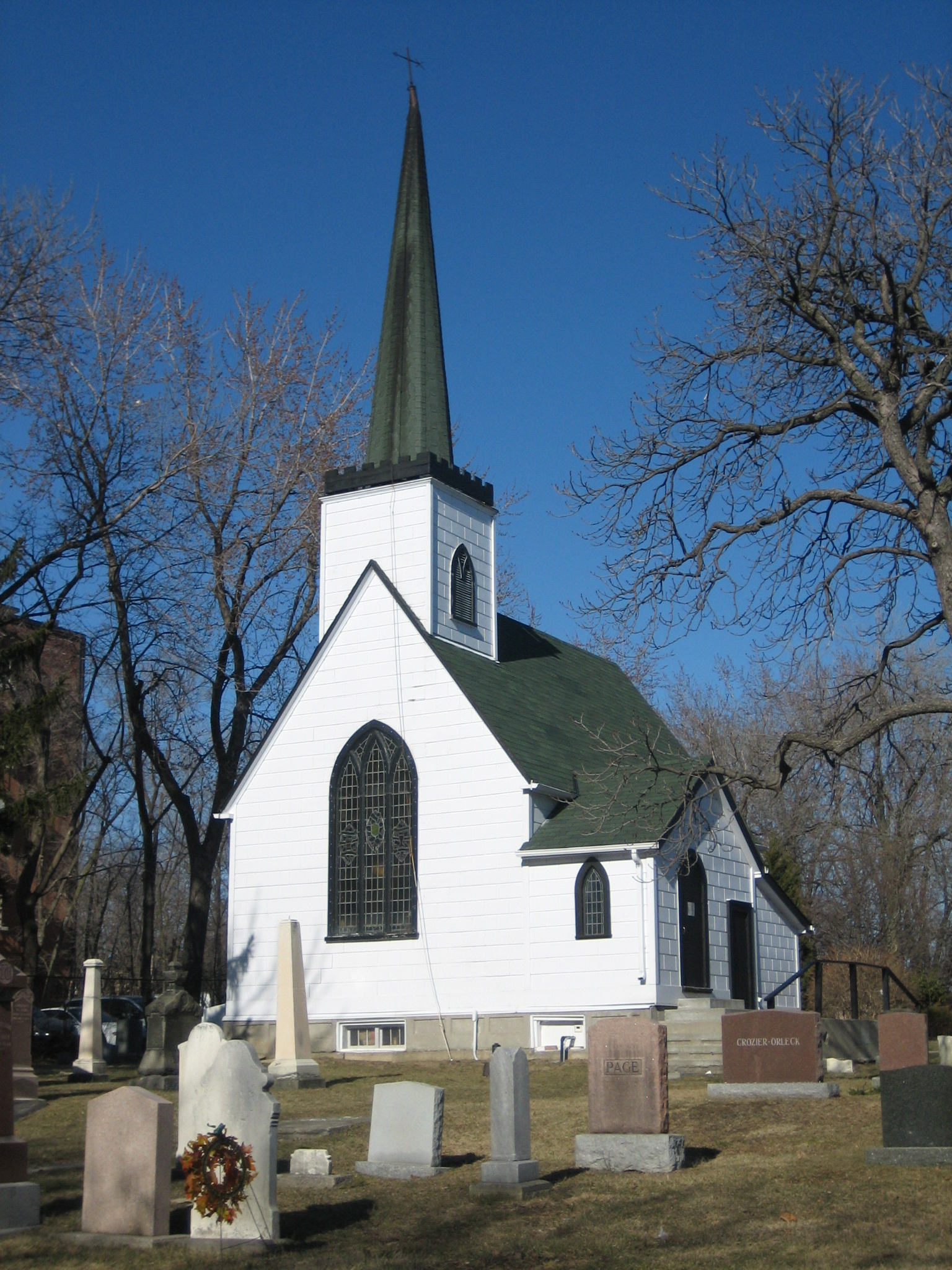 Church of St. Jude (Wexford), Howarth Street, Scarborough (Toronto, Canada)